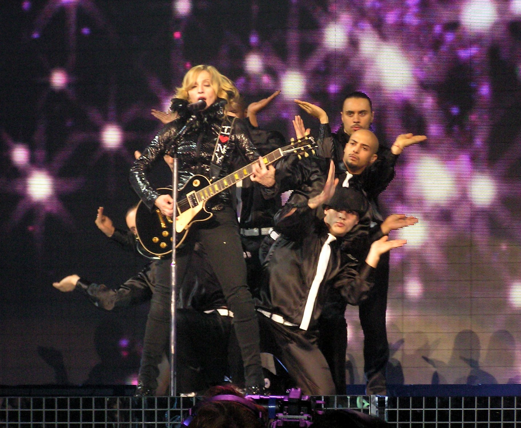 Madonna concert in Fresno